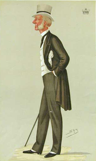 Caricature of Major-General The Duke of Grafton KG CB. Caption read "Charles II". (Augustus FitzRoy, 7th Duke of Grafton)